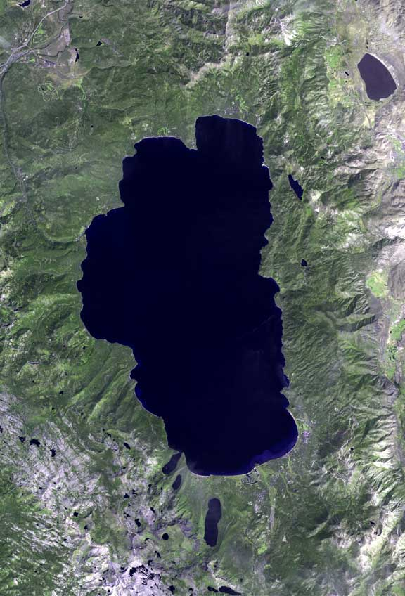 The raw satellite imagery shown in these images was obtain from NASA and/or the US Geological Survey. Post-processing and production by